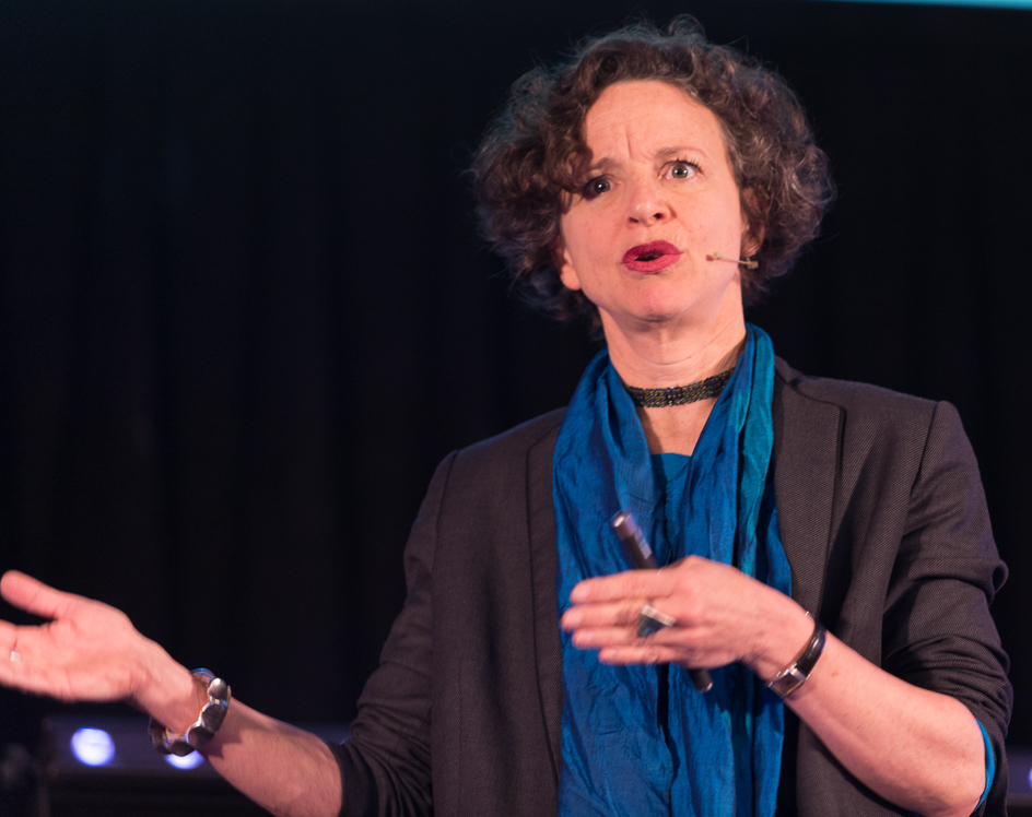 Elizabeth Pisani gives her Sex and Death talk at QED Con 2014.